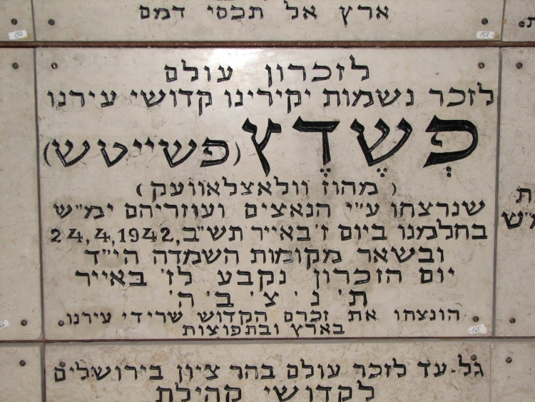 Memorial plaque for the Jewish community of Pzcedcz, Poland, wiped out in the Holocaust. Chamber of the Holocaust, Mt. Zion, Jerusalem.